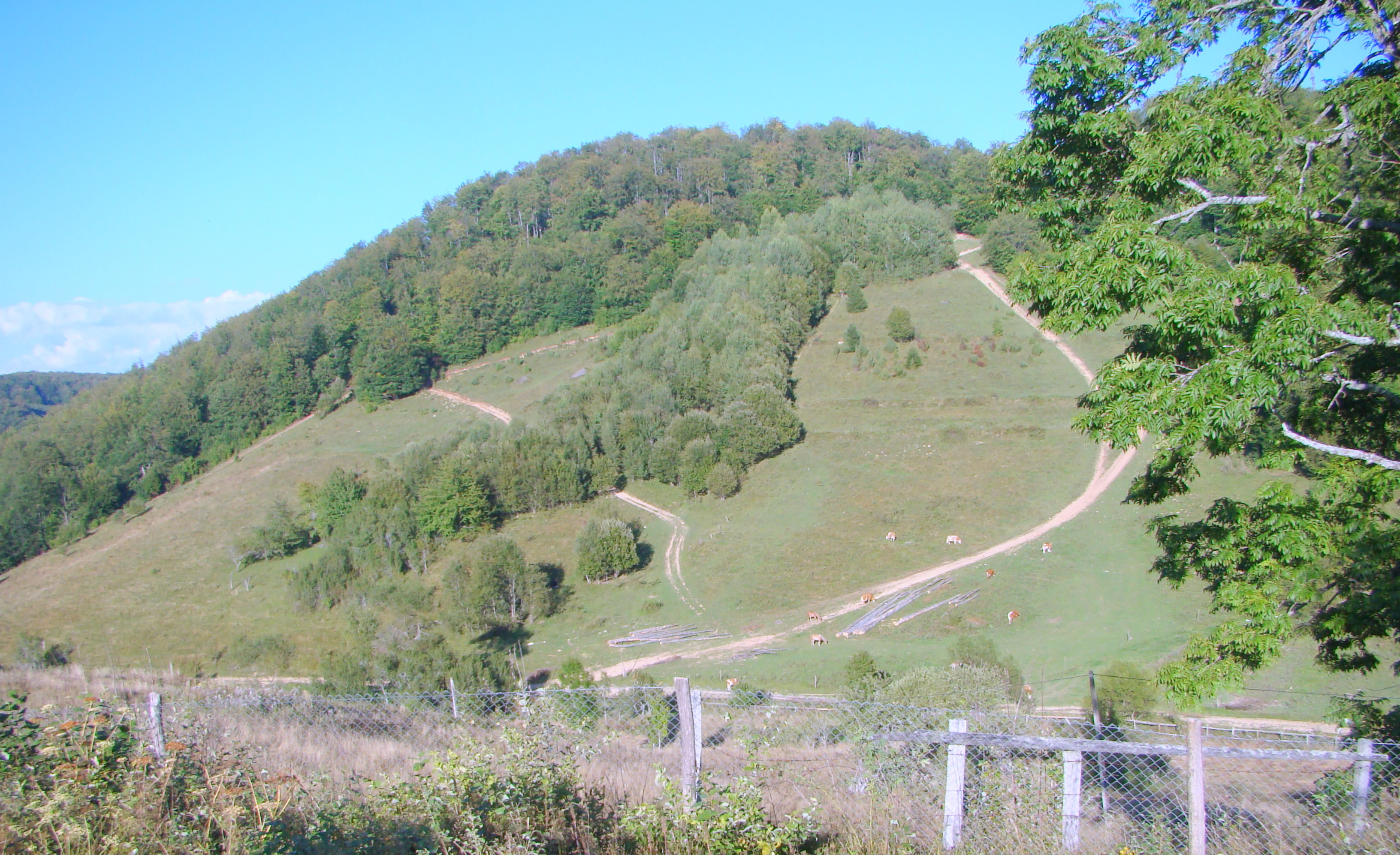 Poieni (Vidra), Alba county, Romania